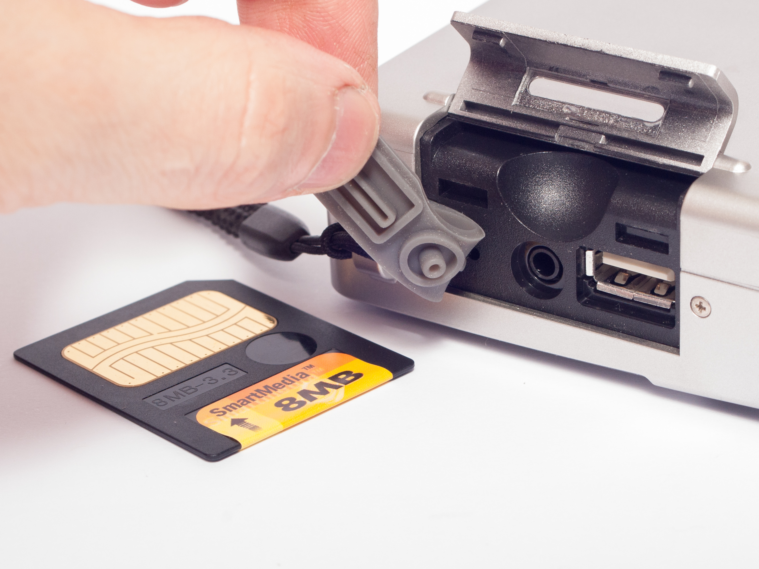 Concord Eye-Q 1M Camera also claimed to be sold under the brand name Keystone in Europe: SmartMedia card and open card slot, usb and rs232 connections. Final connection to the host computer via RS232 is made by a custom cable.